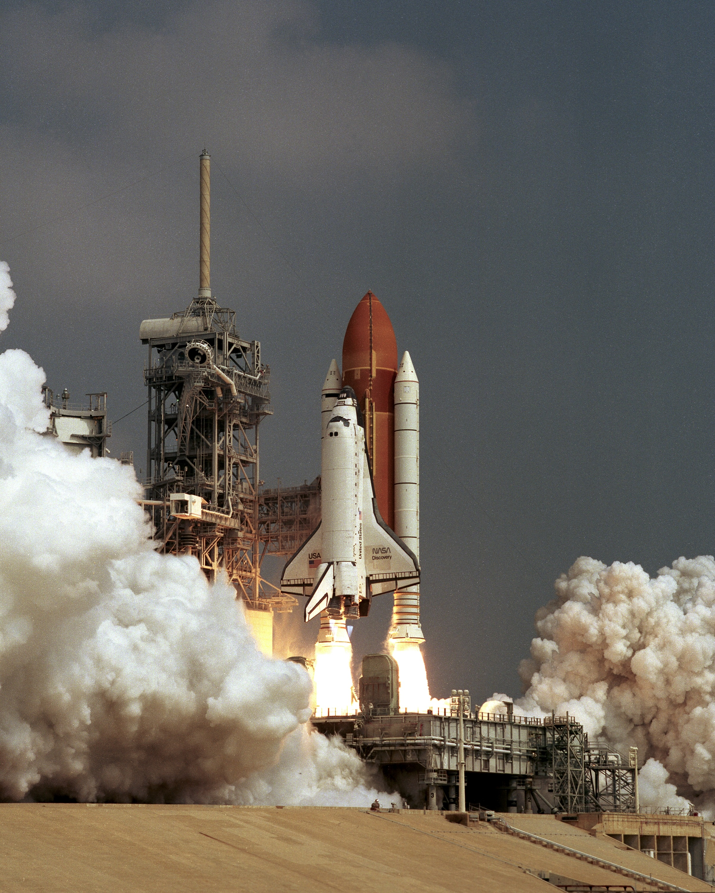 In this scene moments after ignition at Launch Pad 39A, at the Kennedy Space Center (KSC), the Space Shuttle Discovery heads toward an eleven-day mission in Earth-orbit in support of the STS-85 mission. Launch occurred at 10:41 a.m. (EDT), August 7, 1997. Onboard the spacecraft were astronauts Curtis L. Brown, Jr., commander; Kent V. Rominger, pilot; N. Jan Davis, payload commander; and Stephen K. Robinson and Robert L. Curbeam, Jr., both mission specialists; along with payload specialist Bjarni V. Tryggvason, a Canadian Space Agency (CSA) astronaut.